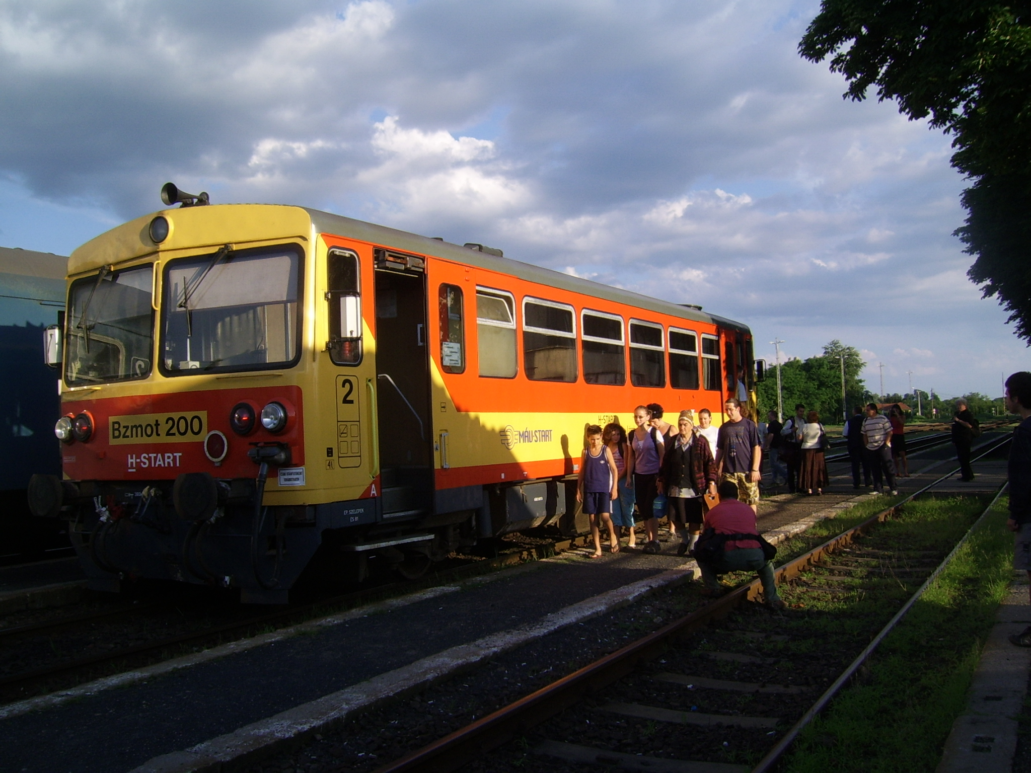 The first train of the reactived Lajosmizse–Kecskemét railway line ready for departure from Lajosmizse, Hungary